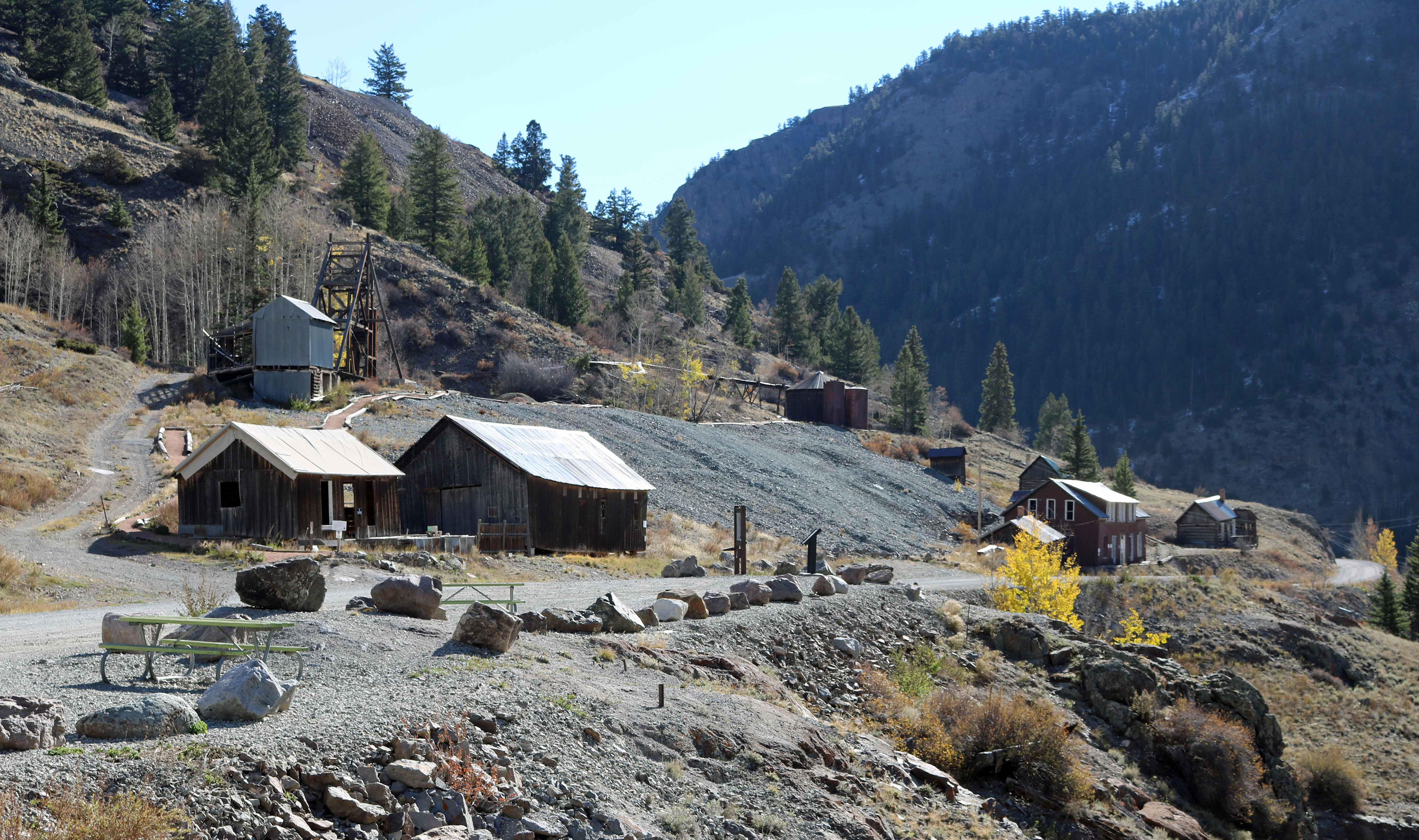 The Ute-Ulay Mine and Mill, located along Hinsdale County Road 20, southwest of Lake City, Colorado. The property is listed on the National Register of Historic Places.